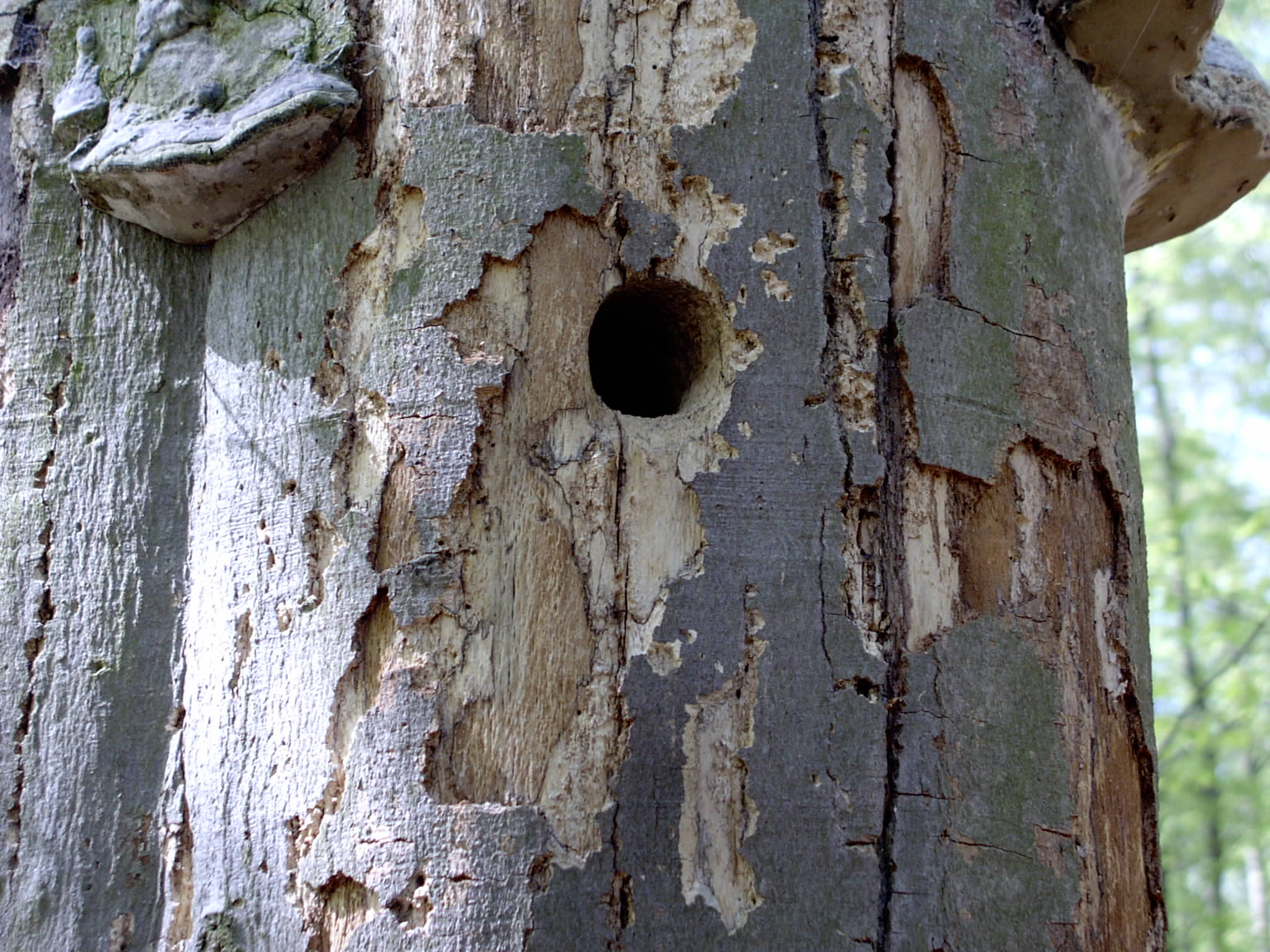 Woodpecker cave in dead beech